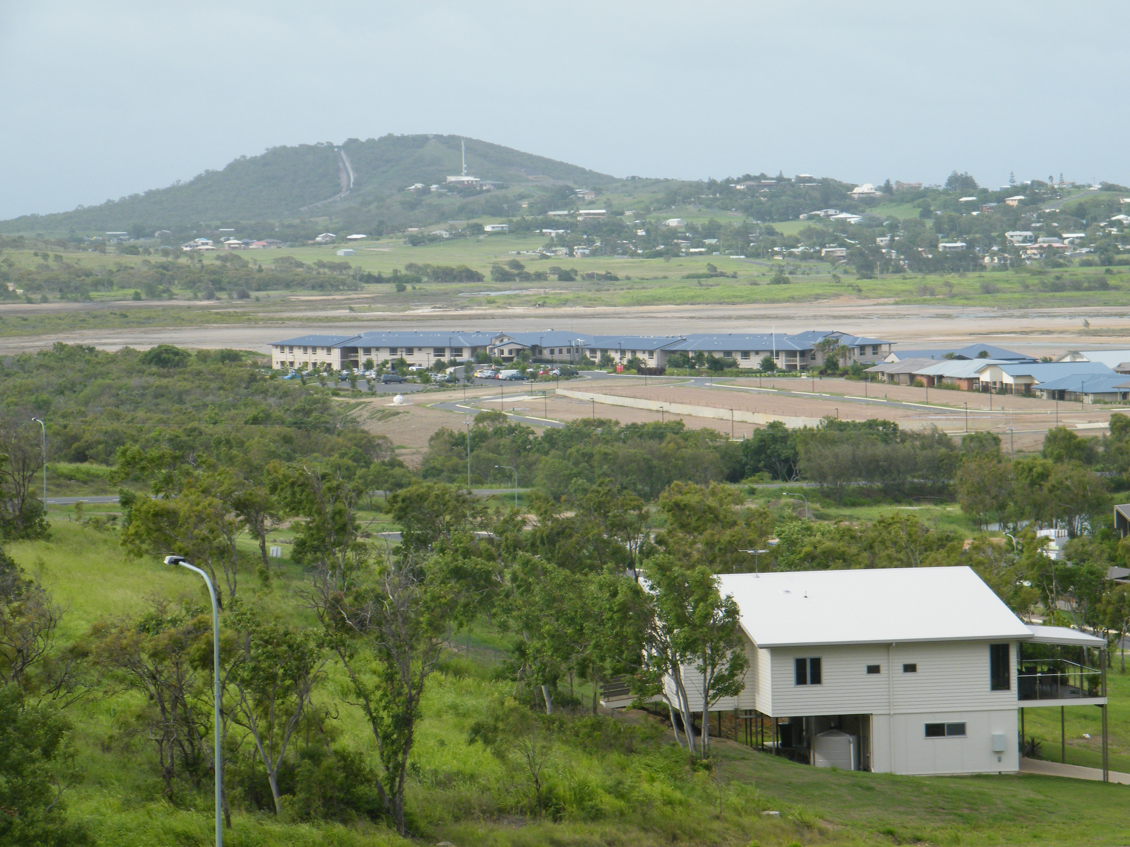 View from hilltop at Seaspray estate/development Zilzie, QLD